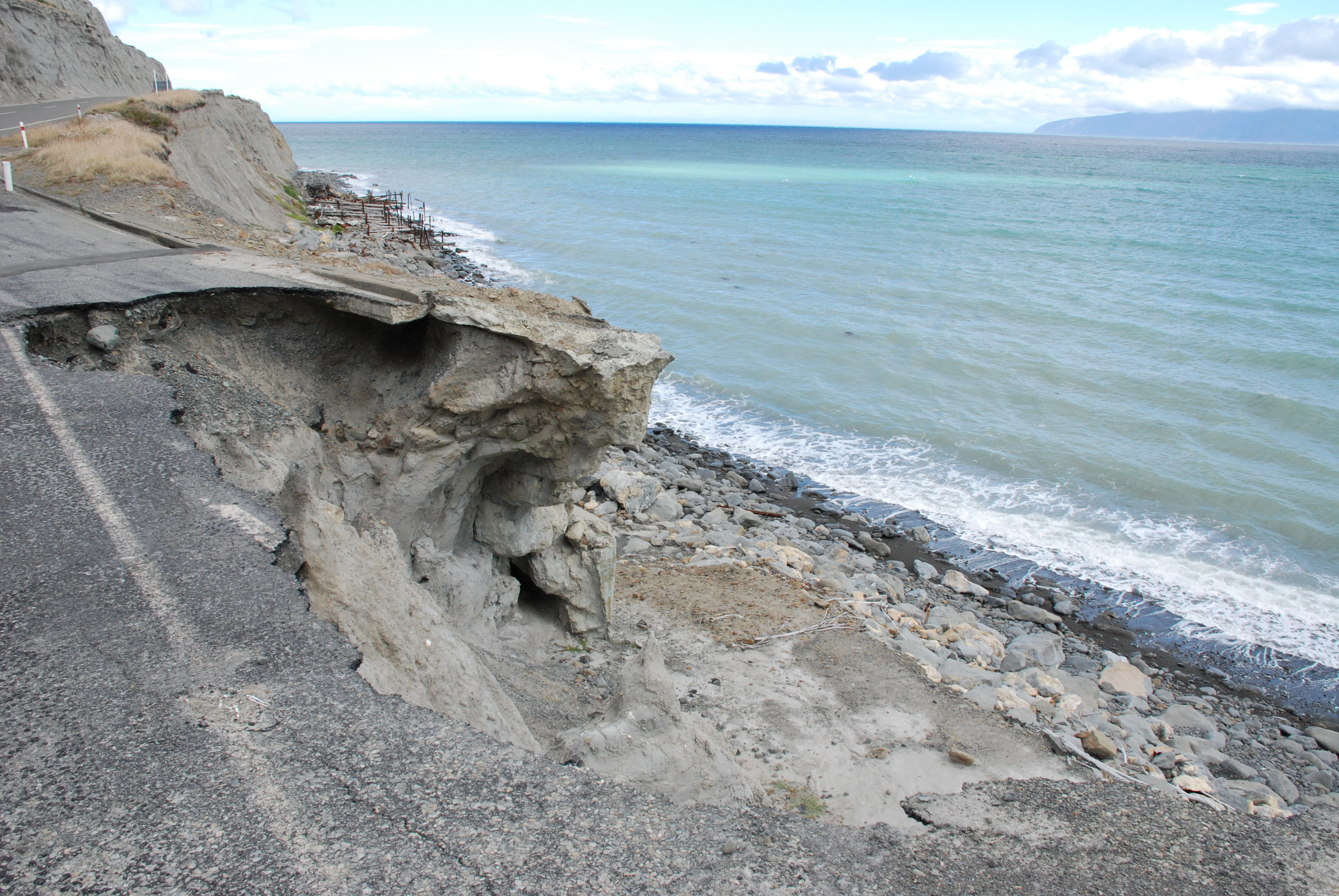 This coastal road by Whatarangi Bluff in Palliser Bay has been subject to significant erosion, and the road has had to be moved.